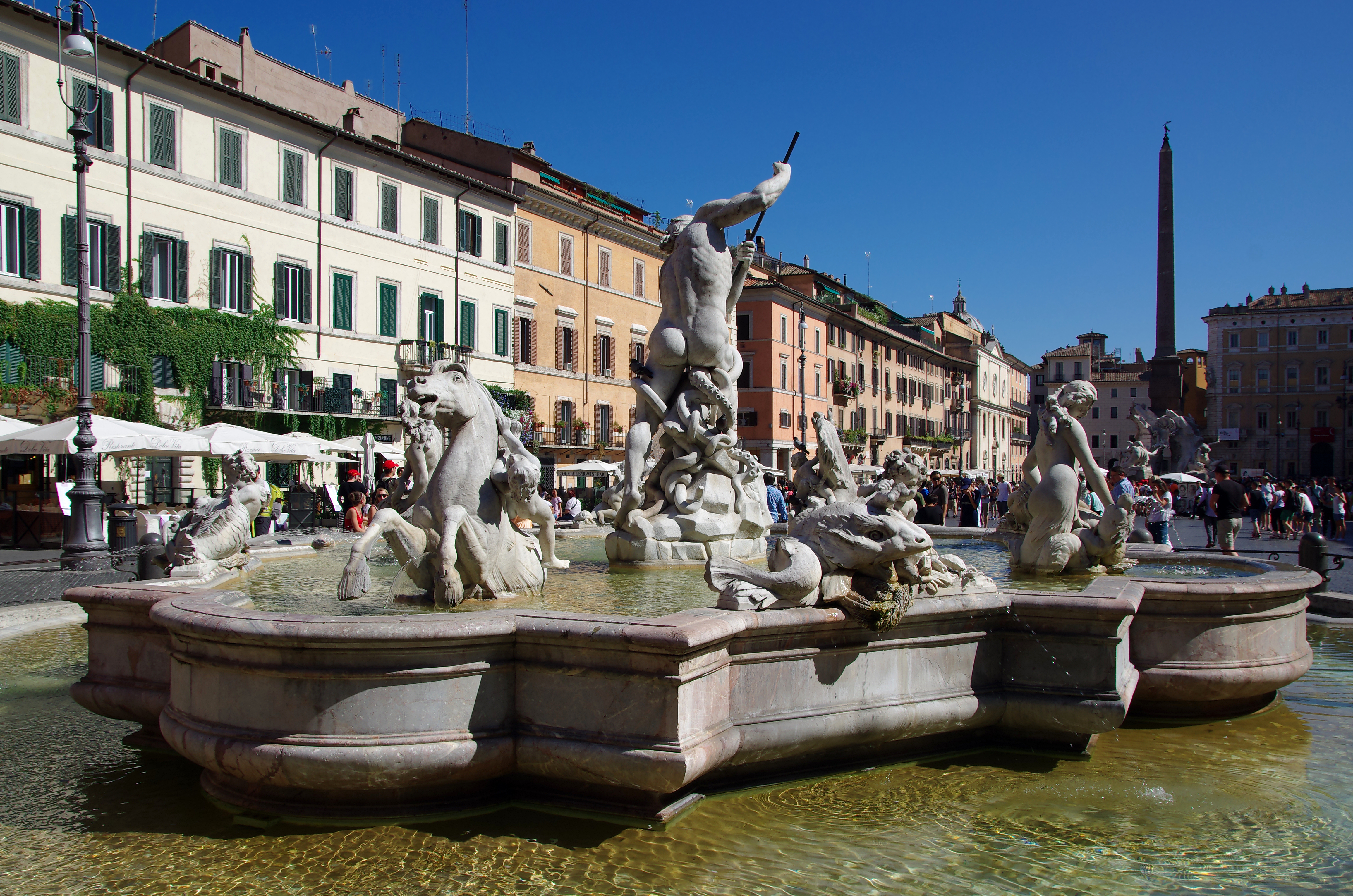 Fountain of Neptune in Rome